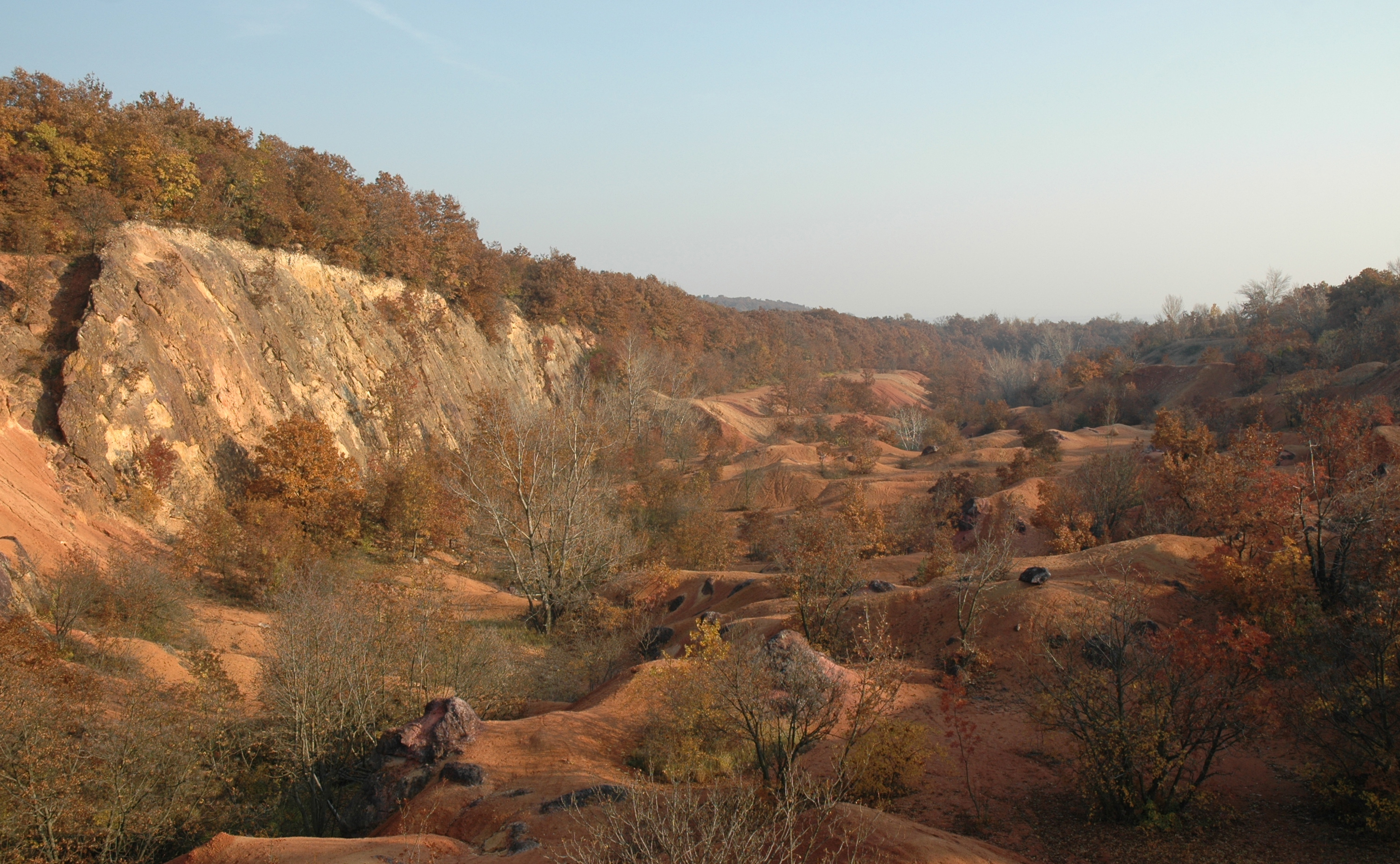 Depleted bauxite mine in Gánt (Hungary)